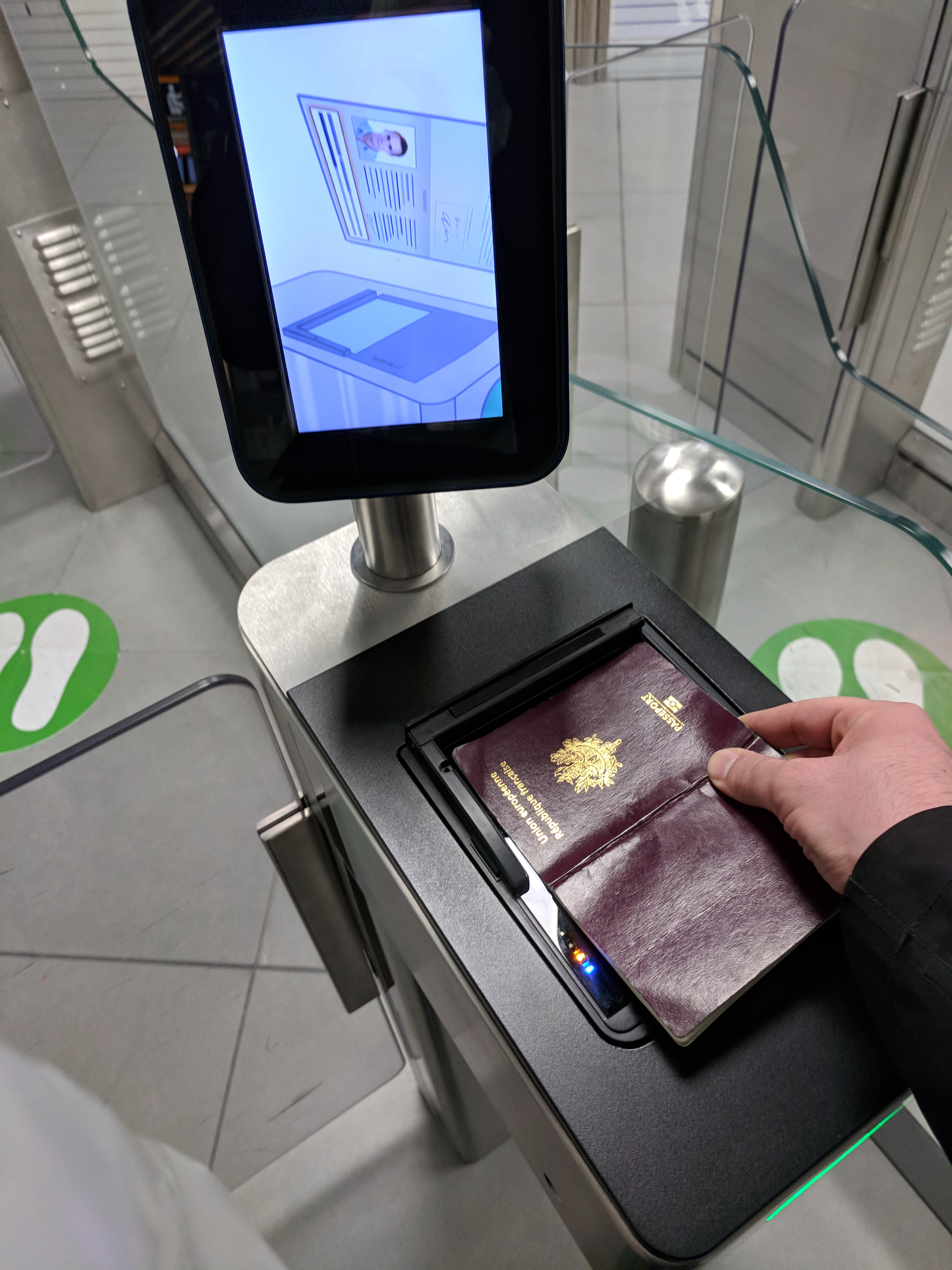 Automated Passport Check at Rome Fiumicino at the eGates with a French passport, with the instruction screen visible